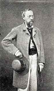 Johan Barthold Jongkind,Dutch painter (1819-1891)